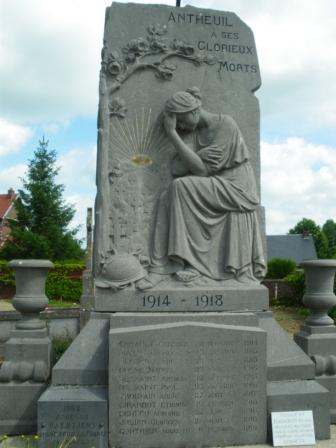 The monument aux morts (war memorial) at Antheuil-Ortes in the Oise region of France. It is one of Établissements Rombaux-Roland's editions, one that can be seen throughout France. This monument aux morts dates from 1925 and the inauguration took place on 17 May 1925.